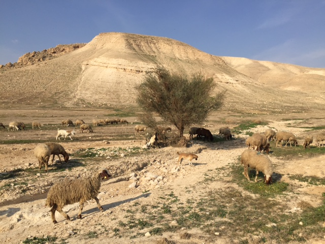 The Gilgal today